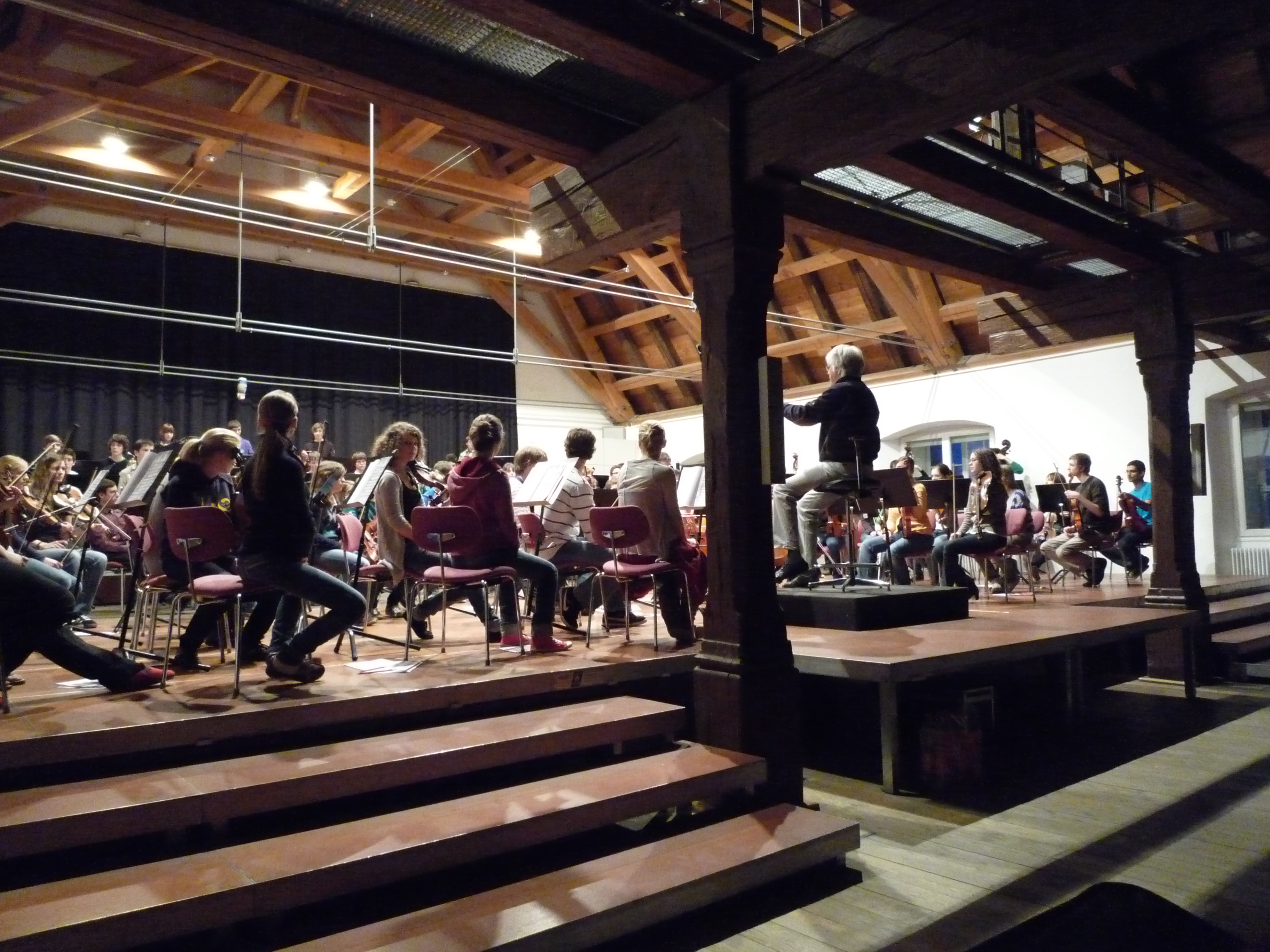 Shows a rehearsal of the Landesjugendorchester Baden-Württemberg in Ochsenhausen.